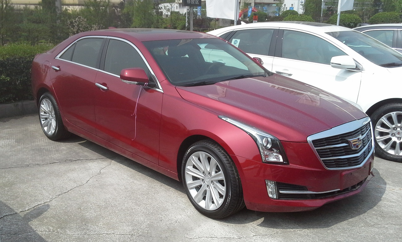 Cadillac ATS-L photographed in Chongqing, China.